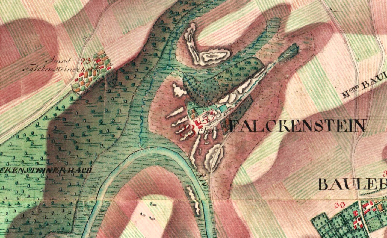 Village of Waldhof-Falkenstein and castle of Falkenstein, Germany, on the map of Ferraris.